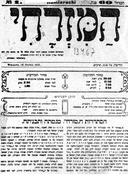 Cover of "HaMizrachi" Newspaper, 1918